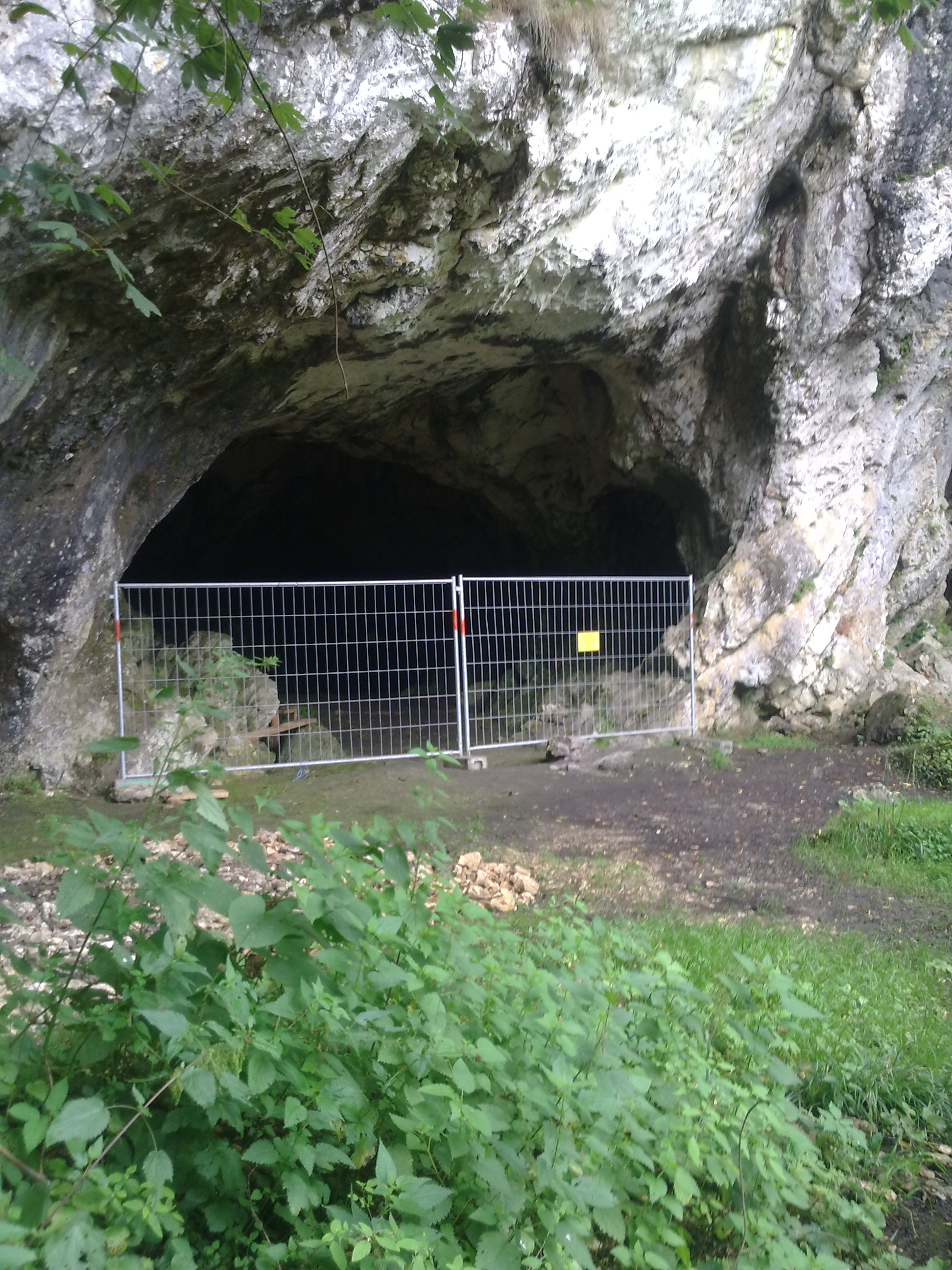 Cave "Stadel" at the "Hohlenstein" in southern "Lonetal". (For image of the nearby "Bärenhöhle" see File:Bärenhöhle (Lonetal).jpg)